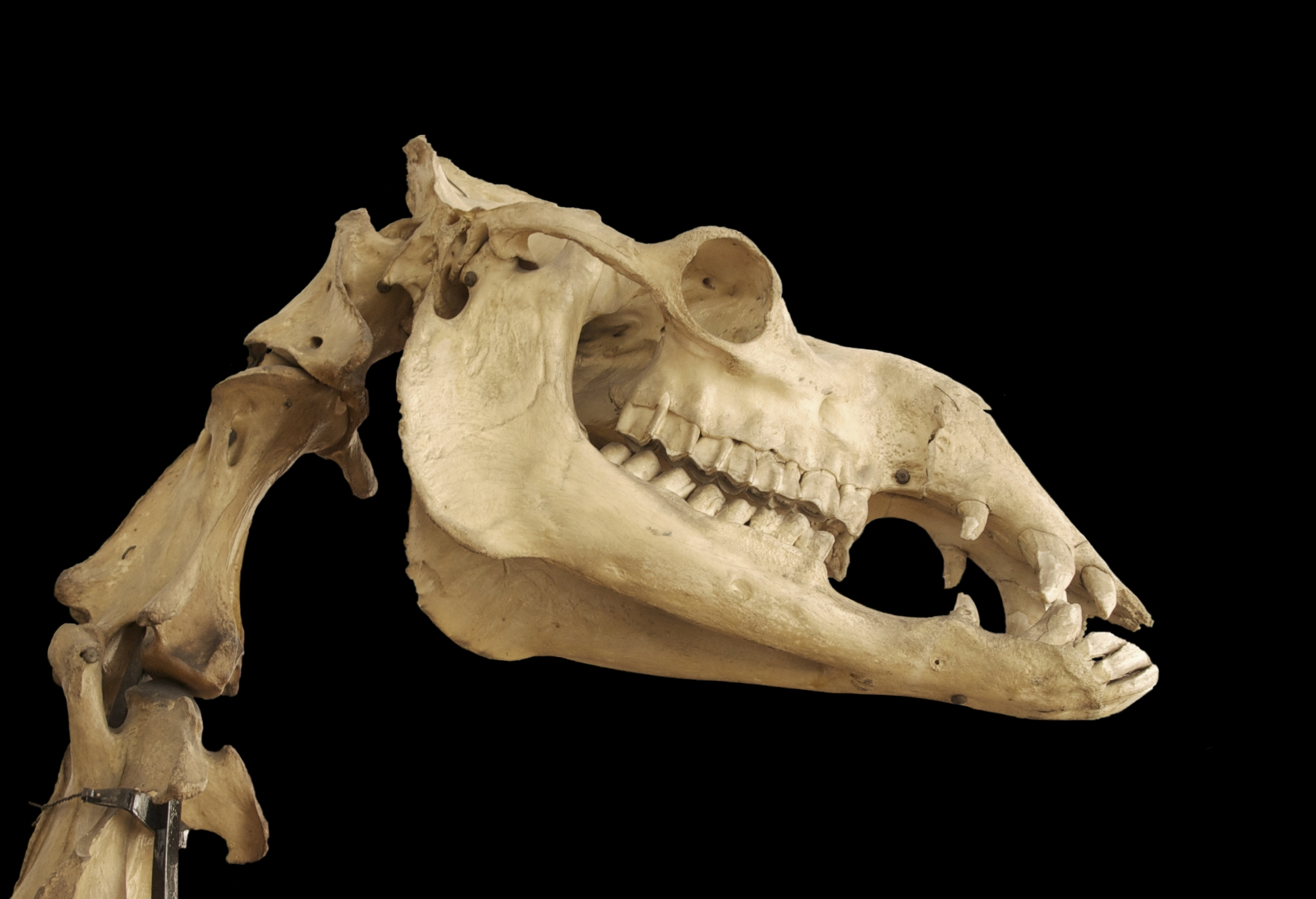 Camelus dromedarius (dromedary) old skull and neck vertebrae. On display at museum Fragonard of National Veterinarian High School of Alfort, Maisons-Alfort, Val-de-Marne, France. Please notice the restoration of the broken jawbone (maxilla) with a wire...